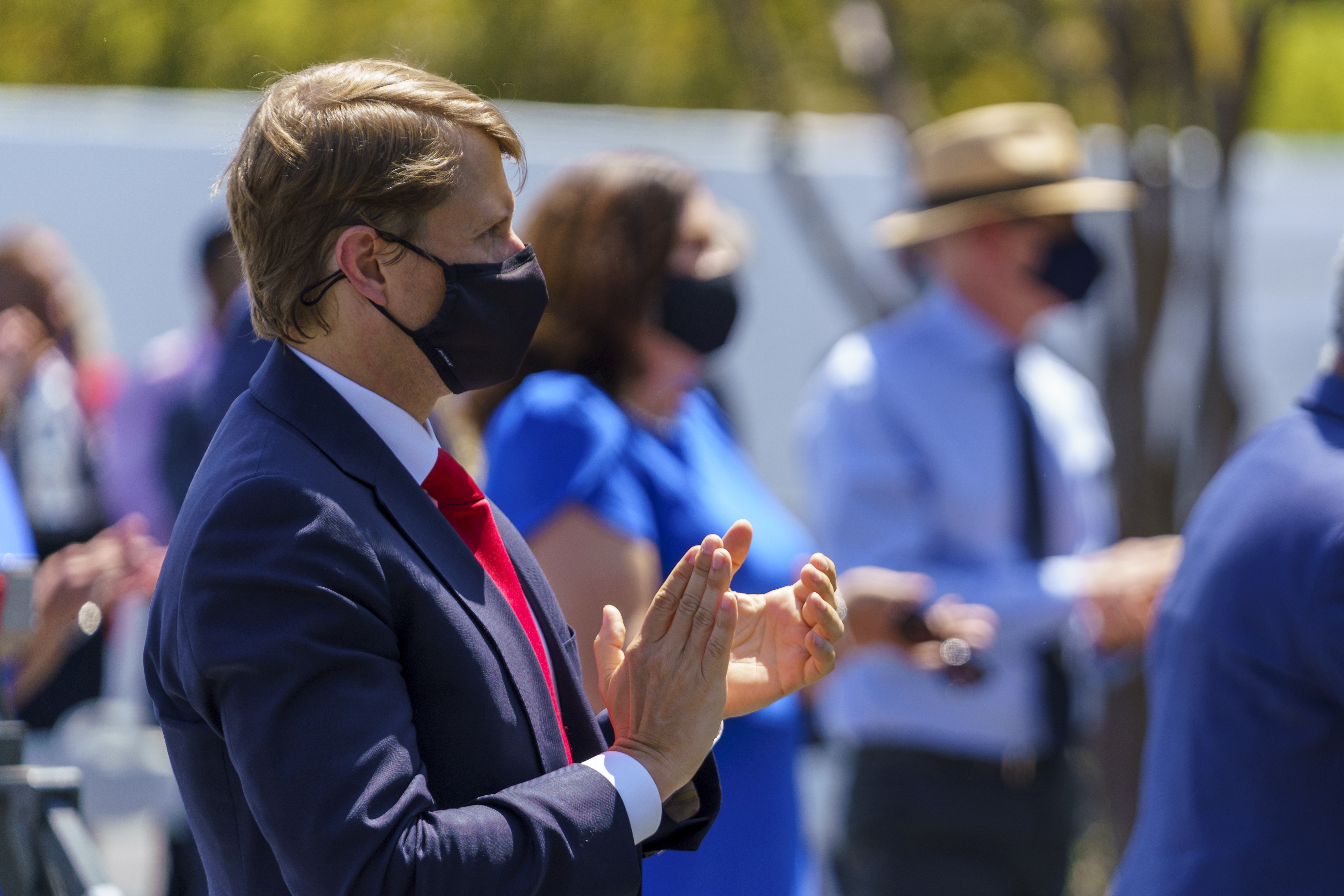 Christopher Nixon Cox participates in Secretary of State Michael R. Pompeo's speech at the Richard Nixon Presidential Library, in Yorba Linda, California, on July 23, 2020. [State Department photo by Ron Przysucha/ Public Domain]